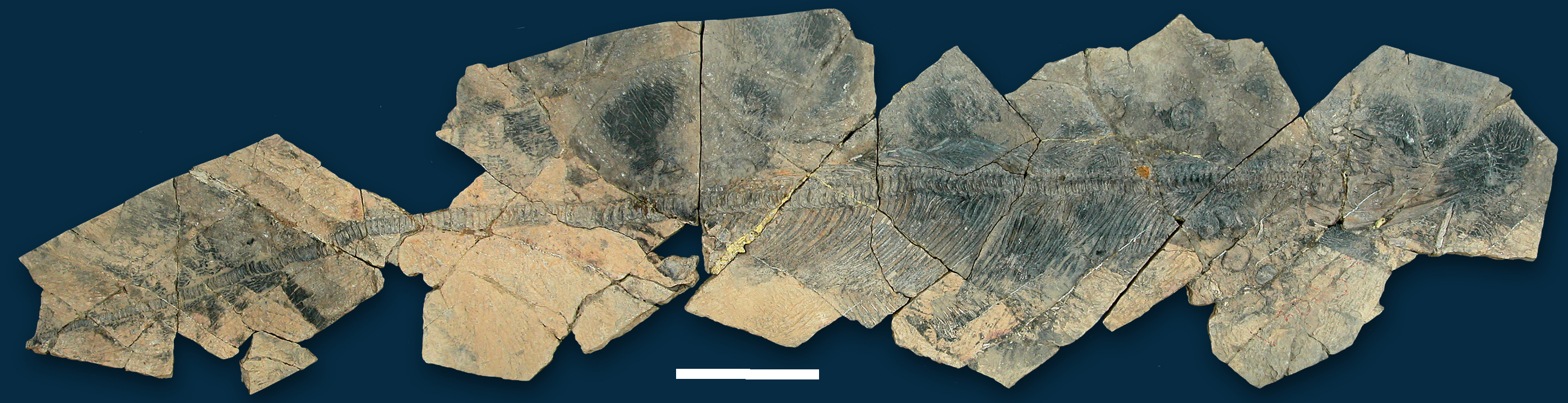 Shastasaurus liangae comb. nov. Juvenile individual YGMIR SPCV03108, total length 3.75 m. Scale bar, 50 cm.